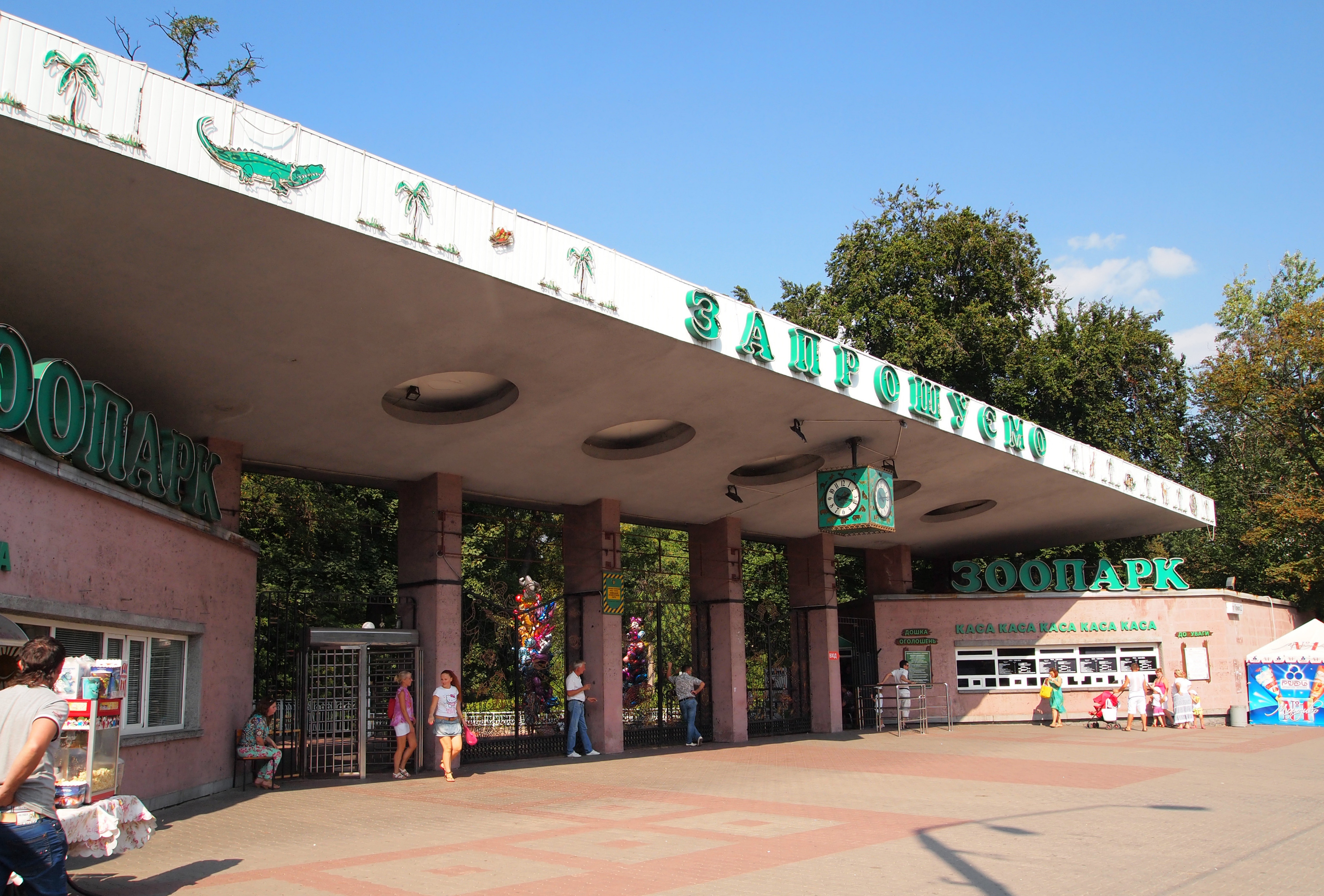 Entry to Kiev Zoo, Ukraine. This photograph was taken with an Olympus E-PL1